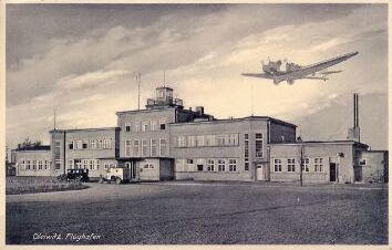 Lotnisko w Gliwicach (Gleiwitz) 1938 Airport Gleiwitz